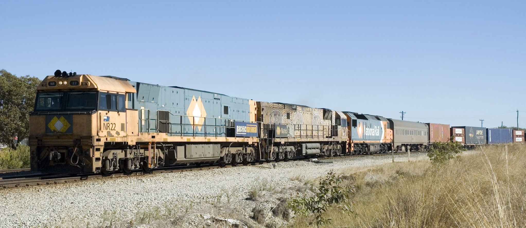 3 locomotives (2 NR class, and DL class) make up 1PM5 Pacific National Perth to Melbourne intermodal freighter departing Kewdale Freight Terminal in Western Australia.